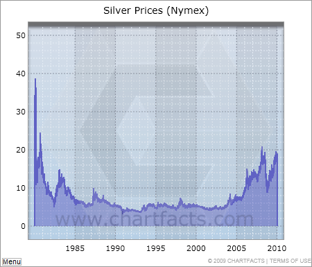 Silver price history.